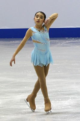 Photos – Junior World Championships 2014 – Ladies (Karen Chen)